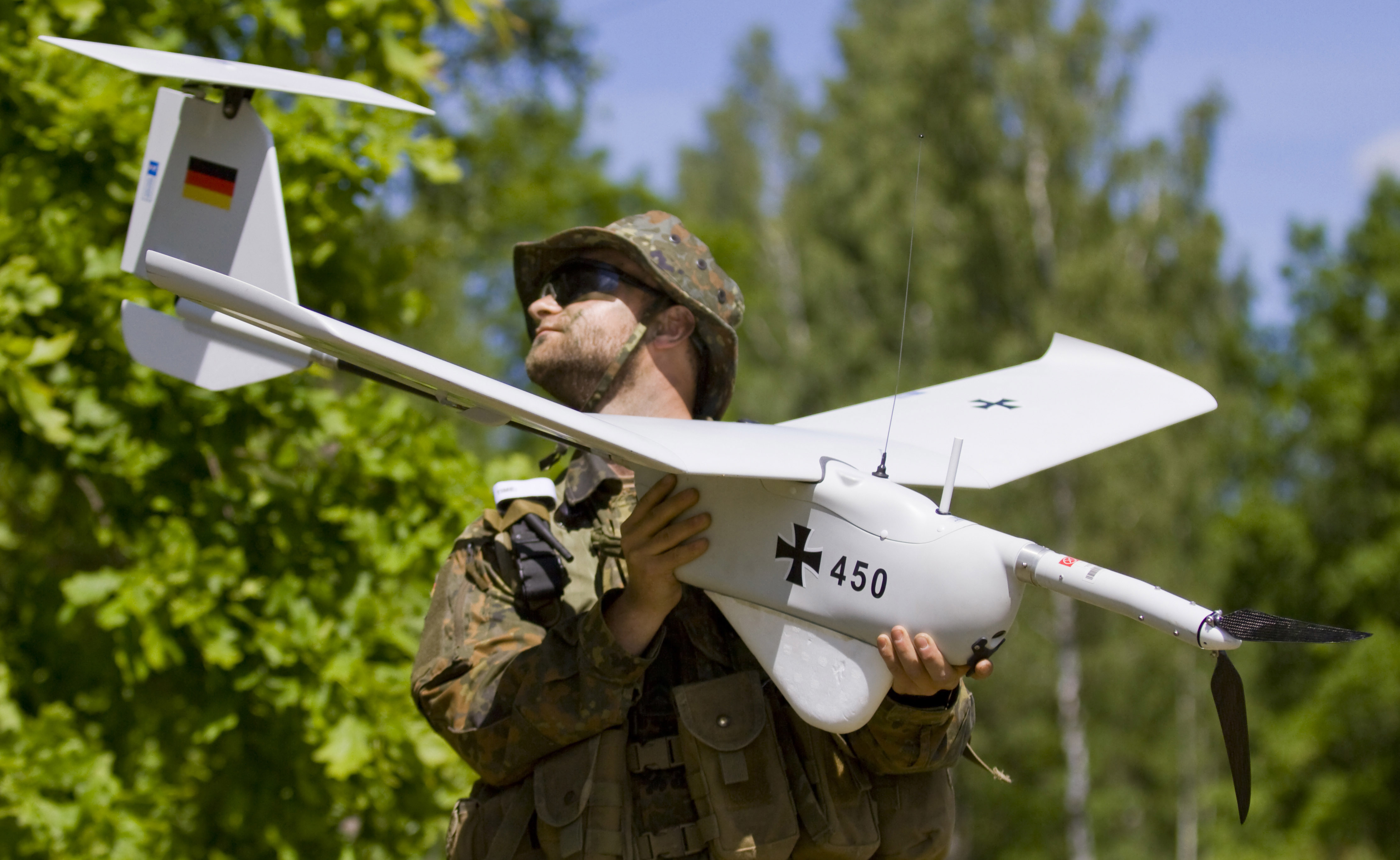 German Army Staff Sgt. Dirk Maushake, a native of Braunschweig assigned to Recon Platoon, Jager Battalion 292, does a pre-flight check of the systems on the Aladin unmanned aerial vehicle his reconnaissance unit uses to survey the battlefield, at the Great Lithuanian Hetman Jonusas Radvila Training Regiment, in Rukla, Lithuania, June 10, 2015. Maushake and his team are participating in a multinational exercise being conducted throughout the Baltic States called Saber Strike 2015. Saber Strike is a long-standing U.S. Army Europe-led cooperative training exercise. This year’s exercise objectives facilitate cooperation amongst the U.S., Estonia, Latvia, Lithuania, and Poland to improve joint operational capability in a range of missions as well as preparing the participating nations and units to support multinational contingency operations. There are more than 6,000 participants from 13 different nations. (U.S. Army Photo by Sgt. James Avery, 16th Mobile Public Affairs Detachment)